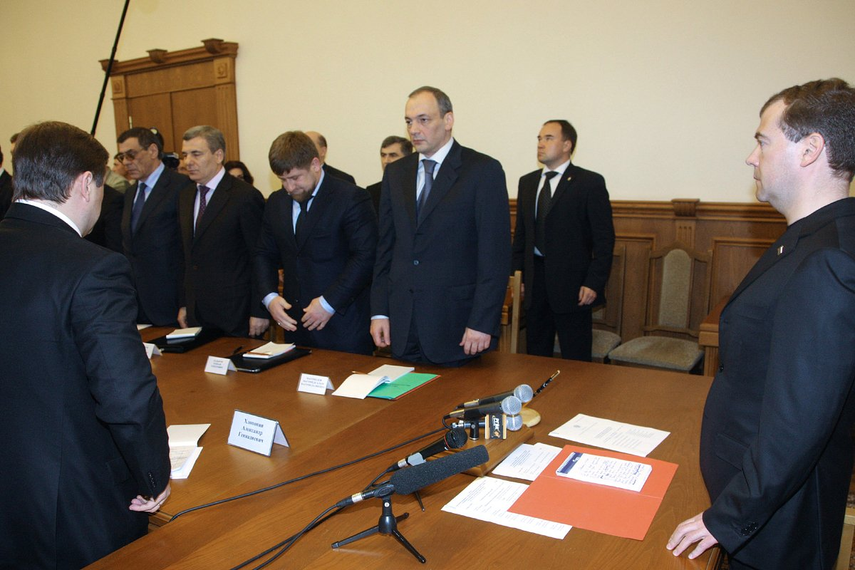 Dagestan. Moment of silence